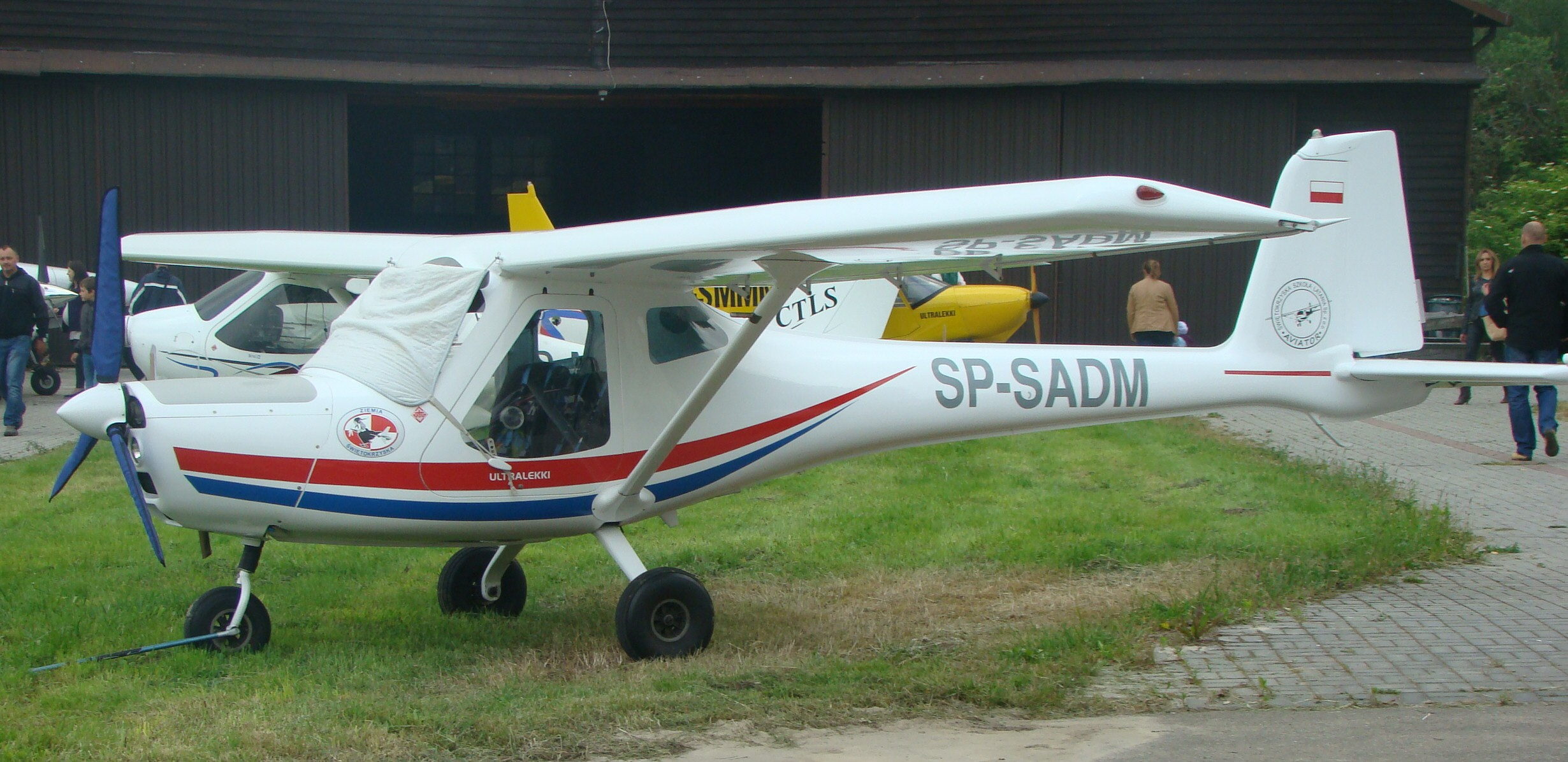 3Xtrim, SP-SADM, Kielce-Masłów airfield